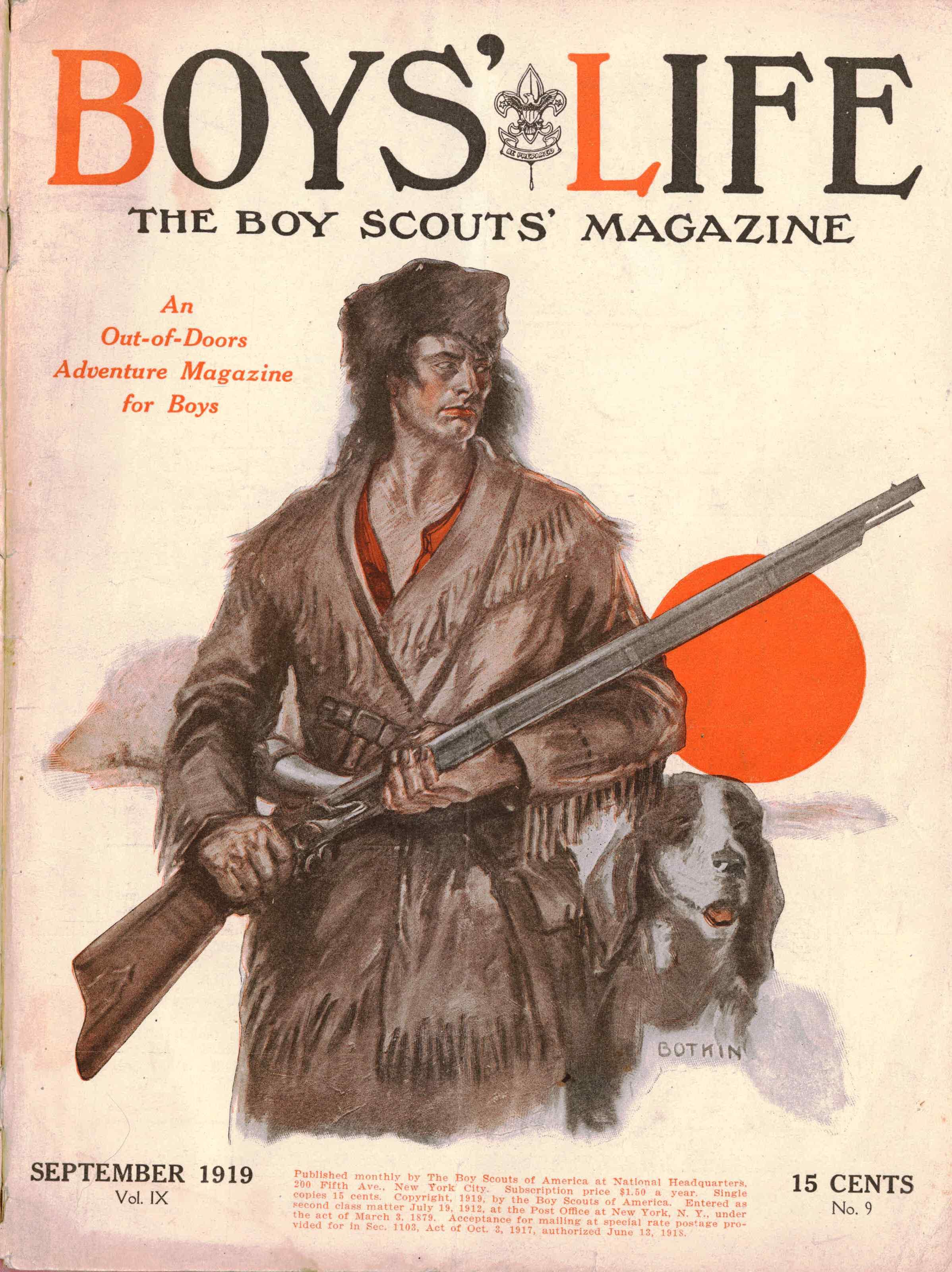 The cover of the September 1919 issue of Boys' Life magazine. The illustration on the cover was done by Henry Botkin.